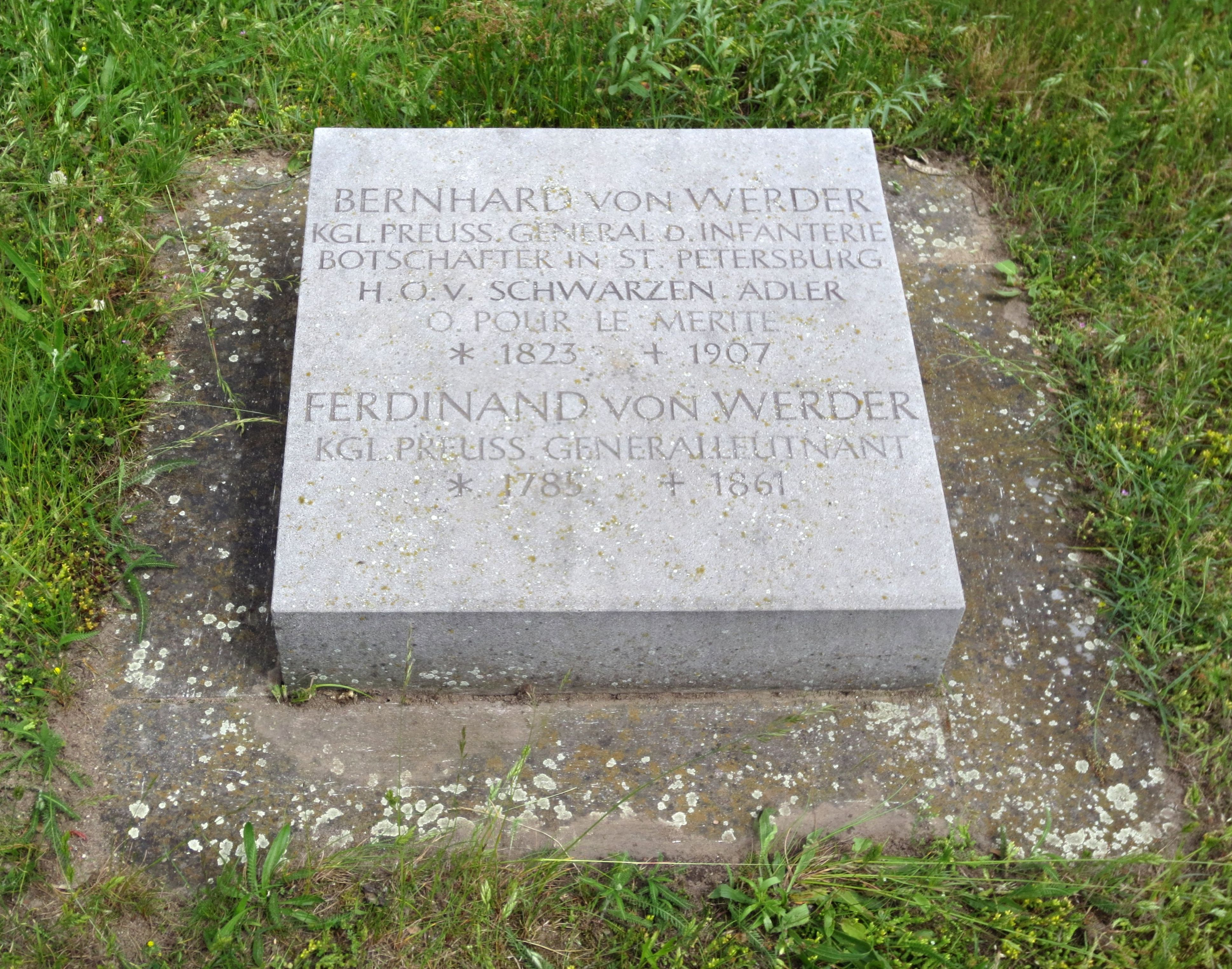 Grave of General of the Infantry Bernhard von Werder (1823-1907) und Lieutenant General (1785-1861) on Invalidenfriedhof cemetery in Berlin, grave field F. Restitution stone from 2003.